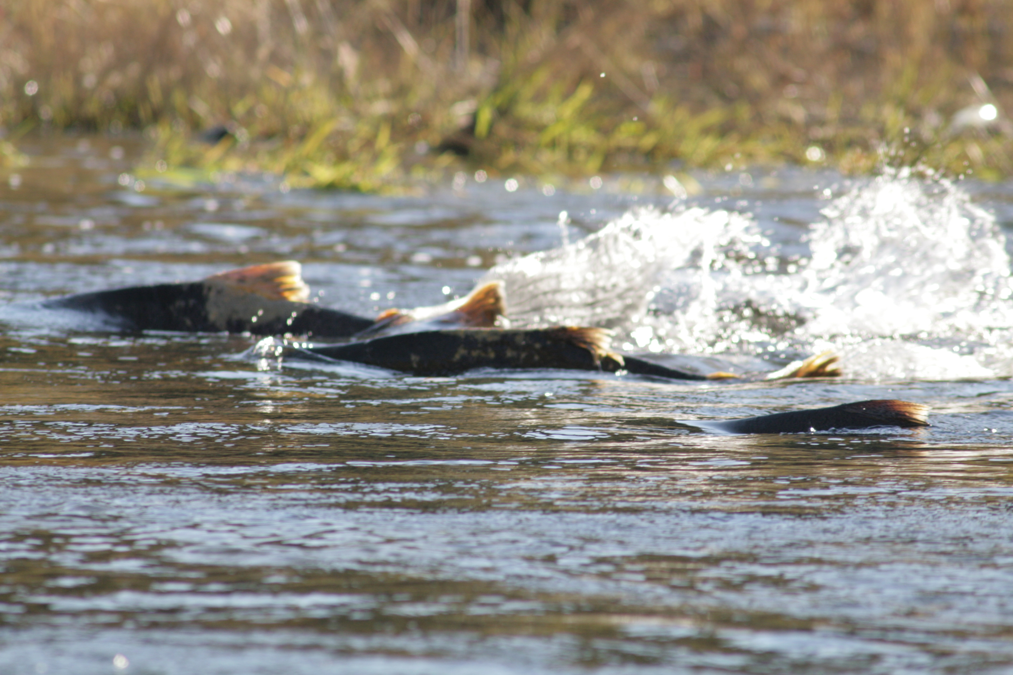 Chinook salmon on the Lower Tuolumne River in the Central Valley of California. The Chinook salmon (Oncorhynchus tshawytscha ) is an anadromous fish that is the largest species in the salmon family. Chinook salmon range from San Francisco Bay in California to north of the Bering Strait in Alaska, and the waters of Canada and Russia. They are highly valued, mostly due to their relative scarcity, compared to other salmon along the Pacific Coast. Nine populations are listed under the U.S. Endangered Species Act as either threatened or endangered, including the fall runs found in California's Bay-Delta.